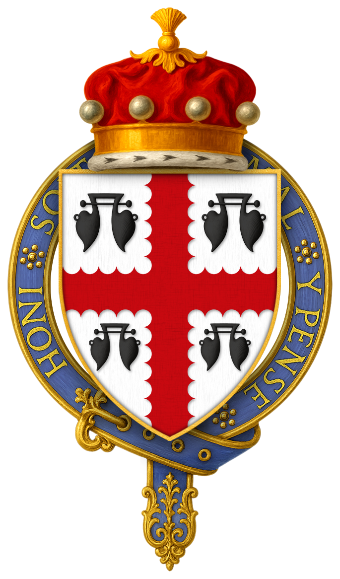 Sir John Bourchier, 2nd Baron Bourchier, KG BELTZ, George Frederick, Memorials of the Order of the Garter from Its Foundation to the Present Time, London: William Pickering, 1841. “ John, Second Lord Bourchier… Arms: Argent, a cross engrailed Gules between four water-bougets, Sable.. ”